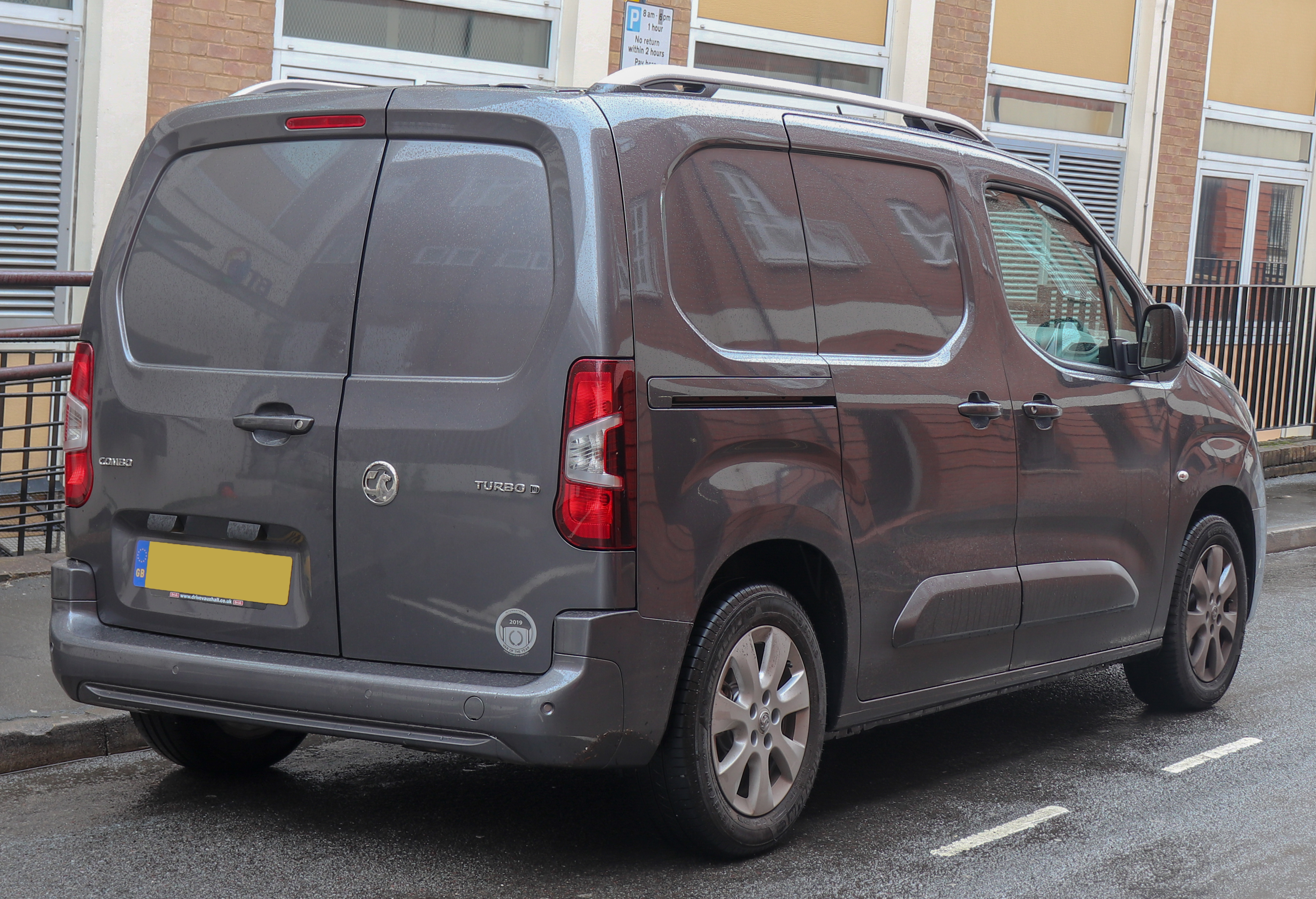 2019 Vauxhall Combo 2000 LE NAV 1.5 Rear Taken in Leamington Spa